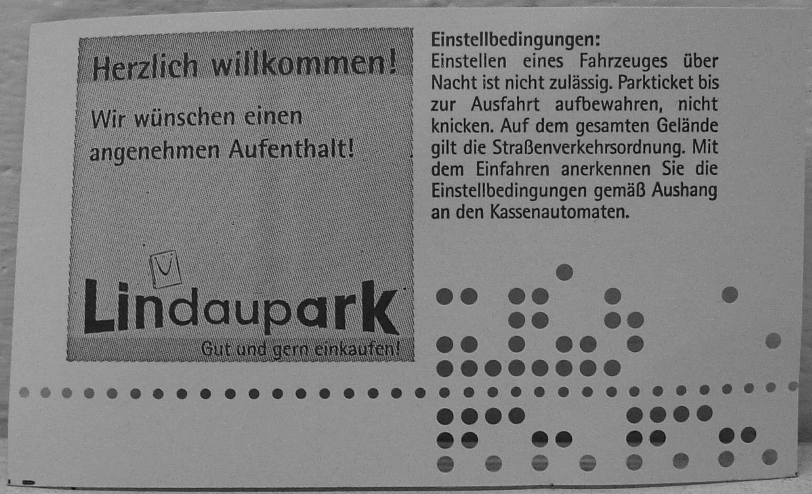 punch card, parking ticket, basement garage, Lindaupark, Lindau (Lake of Konstanz), GERMANY (please be aware that the depicted logo on the card might be protected)